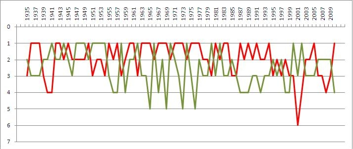 Graph charting the finishing league positions of SL Benfica and Sporting CP who contest the Lisbon football derby. Benfica represented by red and sporting by green